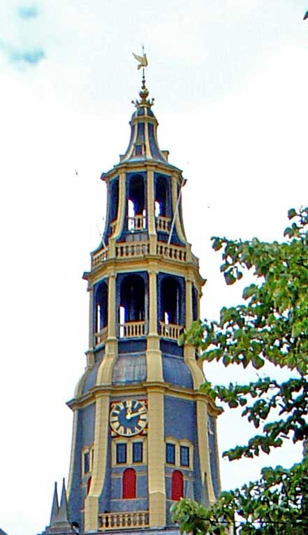 Church of Groningen